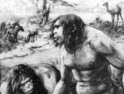 Nebraska Man illustration of two humanlike creatures, done by Amedee Forestier for the Illustrated London News (1922).